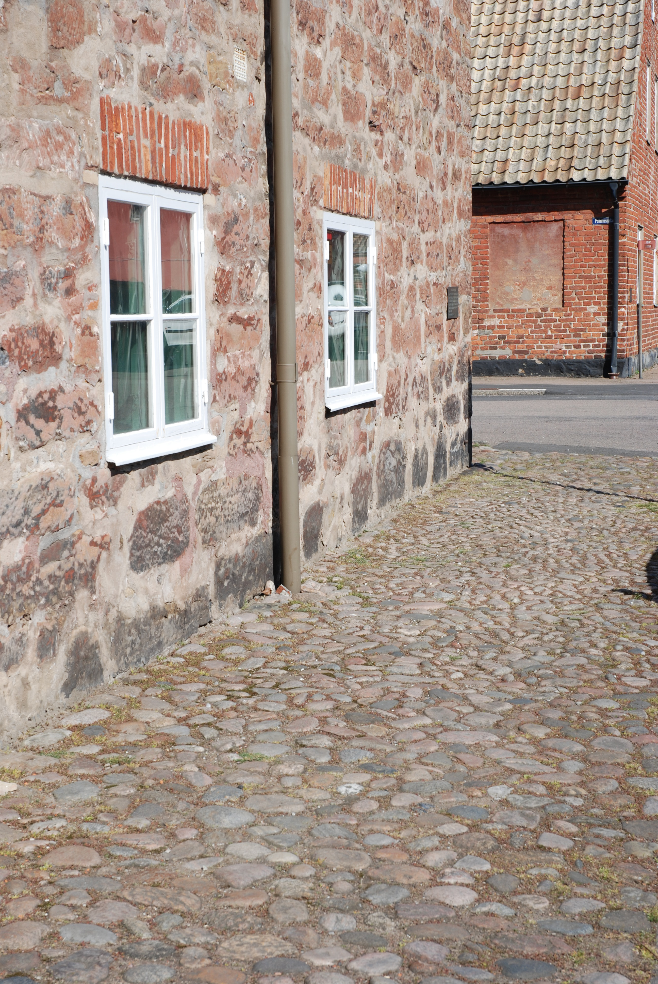 Cobblestone pavement outside Höganäs Museum, Sweden